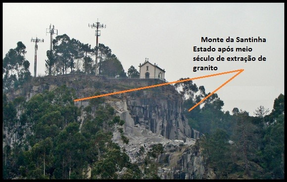 Chapell